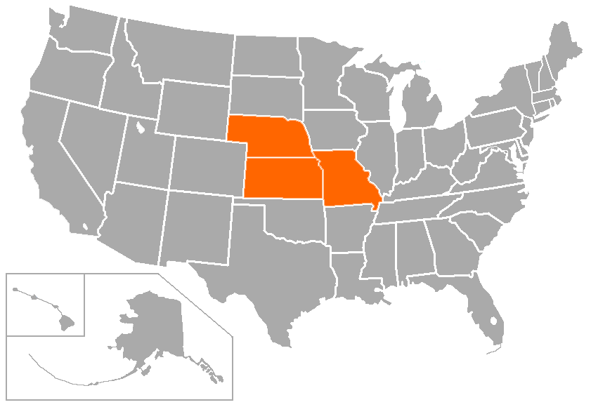 A map of Kansas, Missouri and Nebraska, the states in the Midwest Christian College Conference and the Mid-America Intercollegiate Athletics Association.